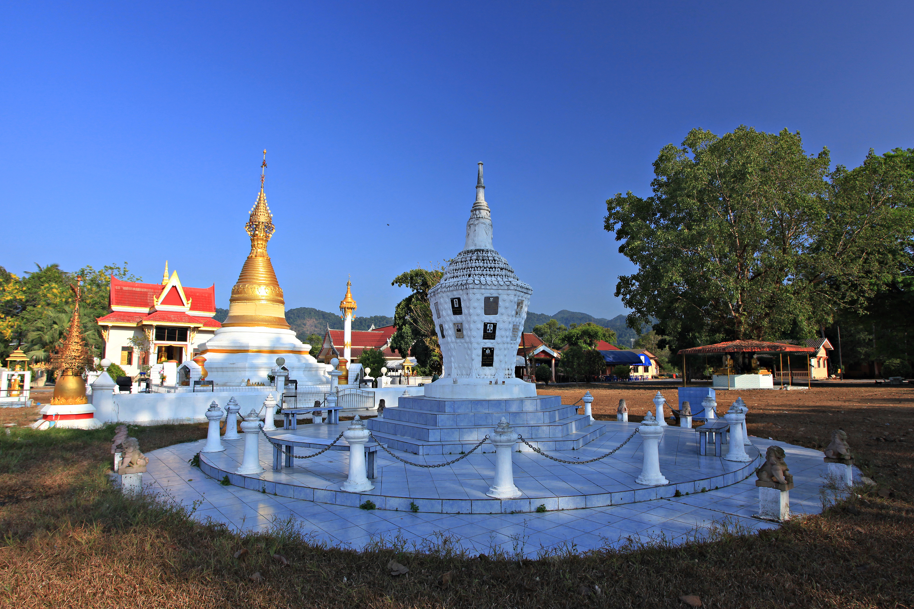 วัดสุวรรณคีรีวิหาร